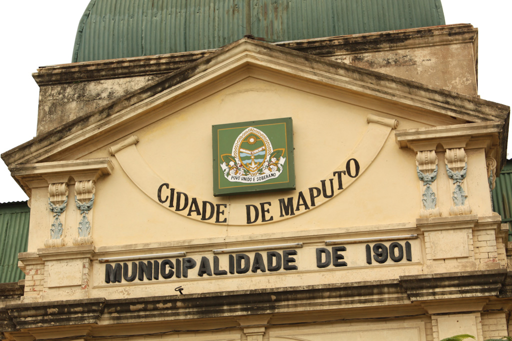 Central Municipal Market of Maputo, Mozambique